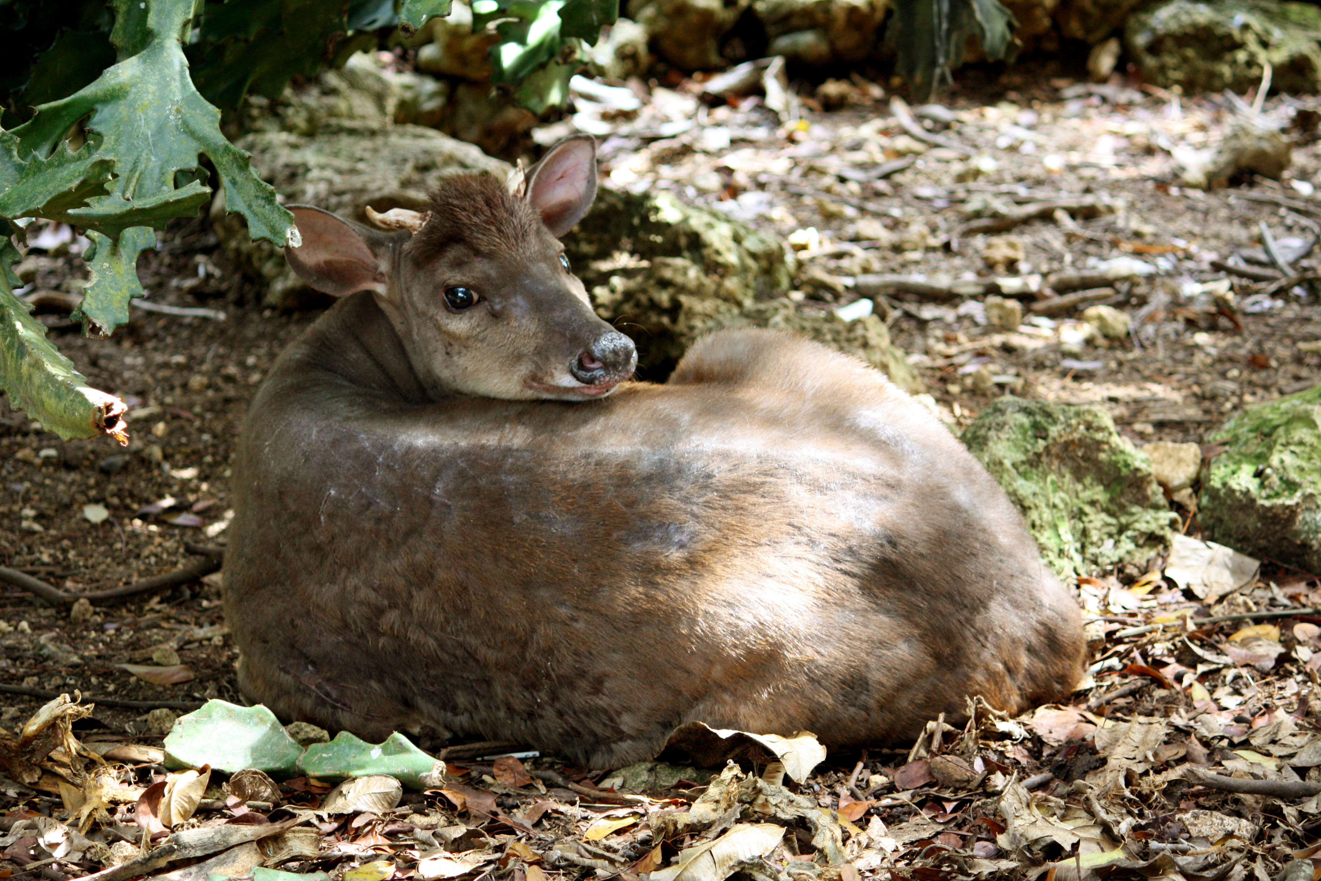 Male Red Brocket Deer (Mazama americana). Captive individual in Barbados Wildlife Reserve, Barbados (not present there in the wild).